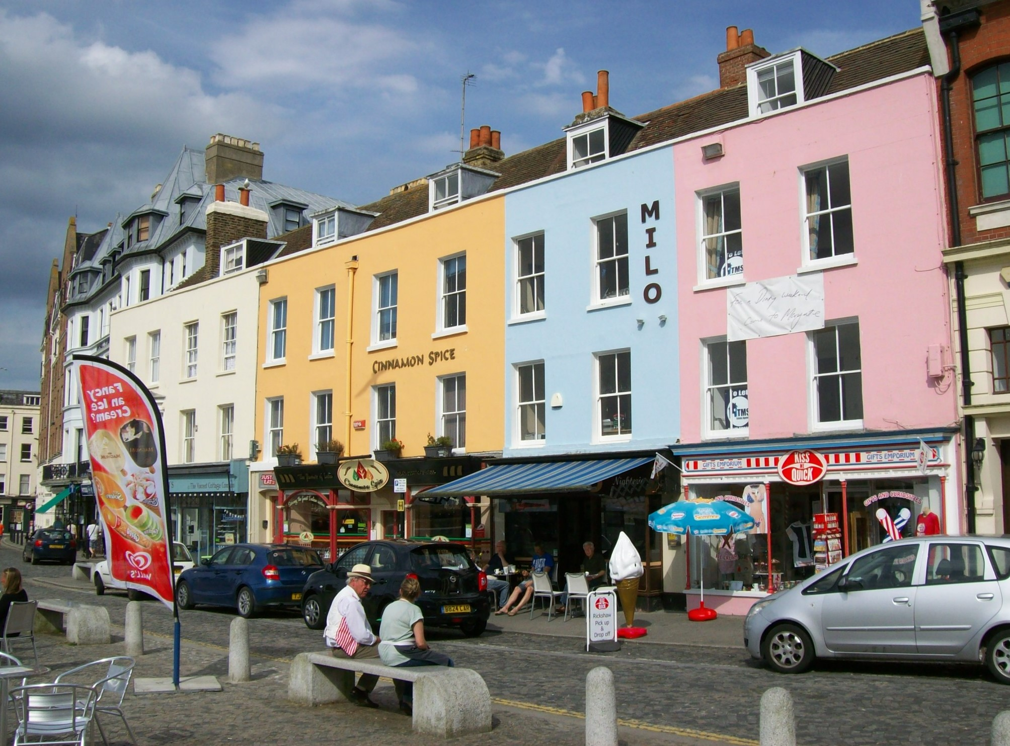 The Parade, Margate